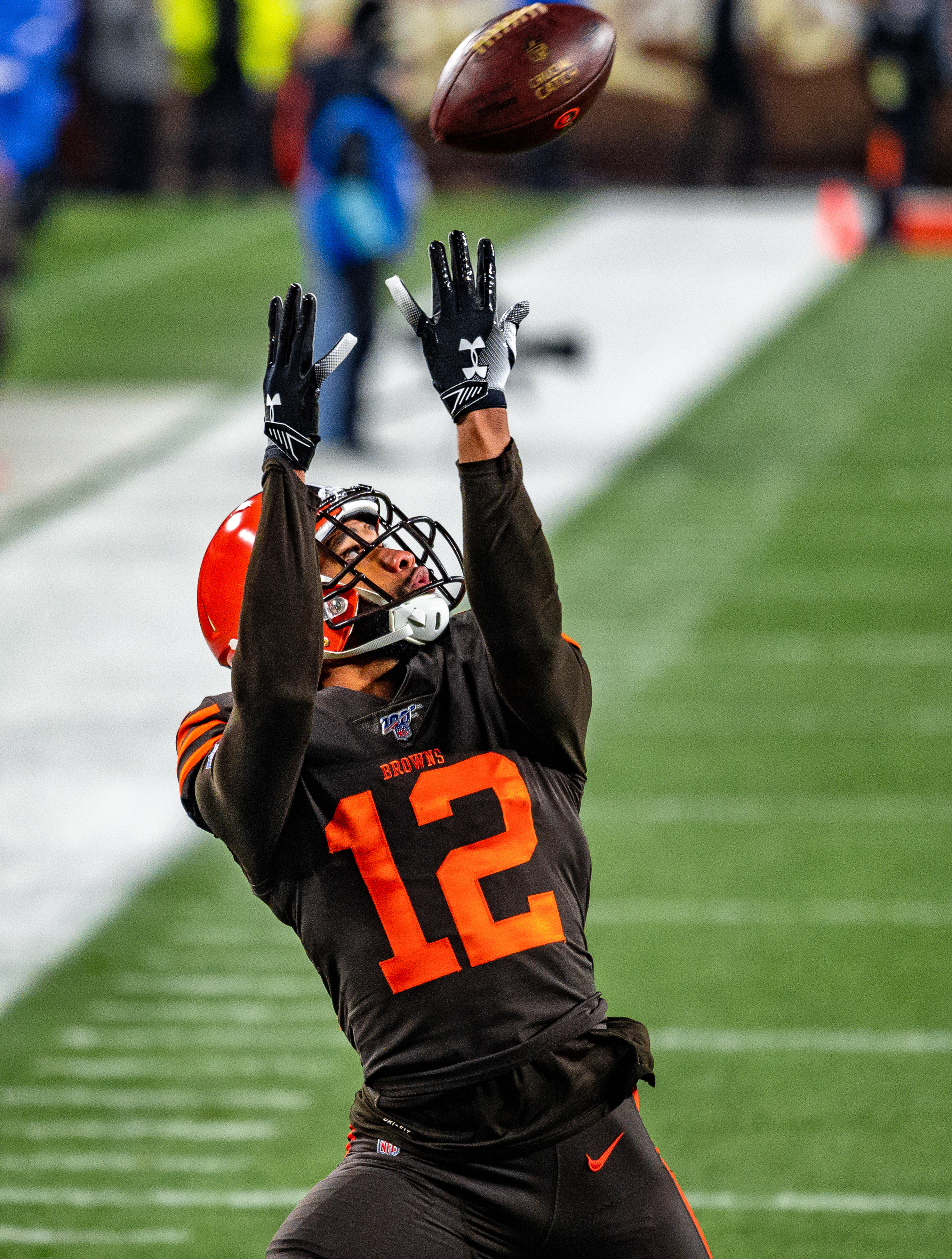 KhaDarel Hodge playing for the Browns in 2019